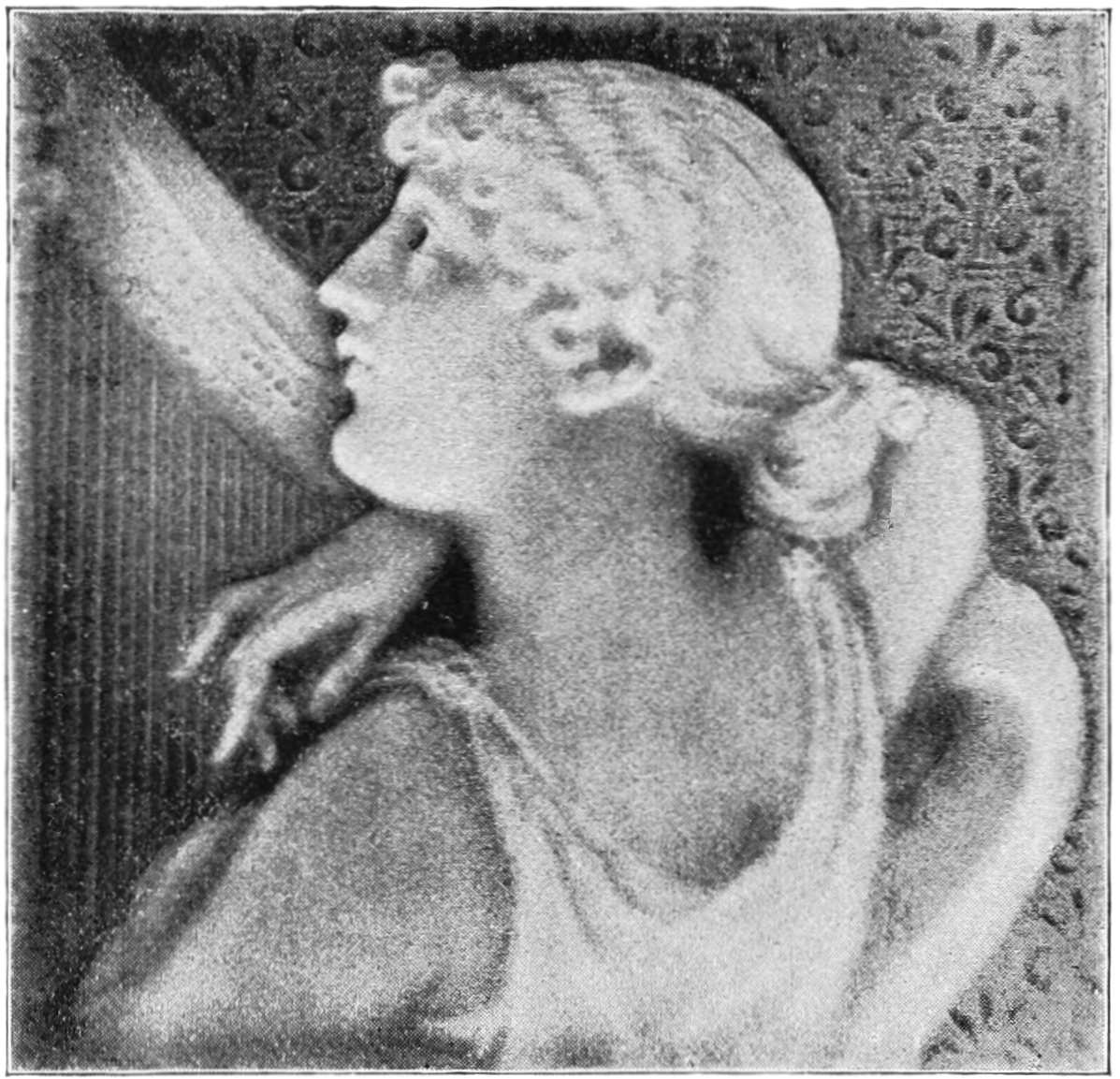 Sappho, Beaver Falls Art Tile Company